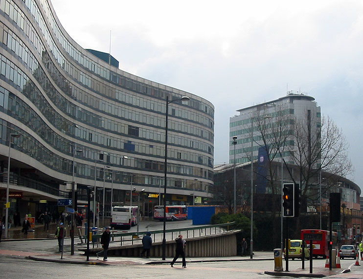 Manchester Piccadilly Station